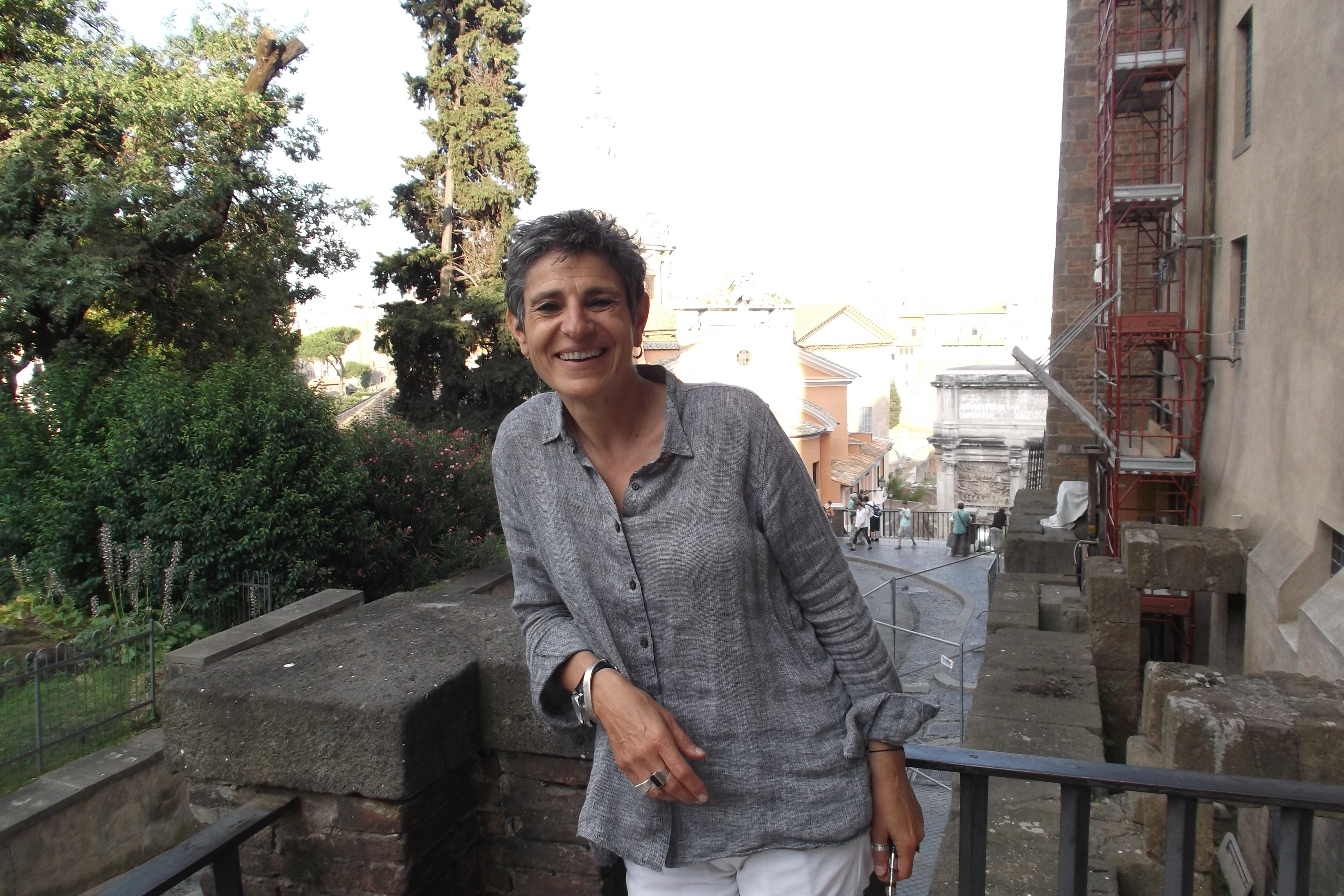 French-Tunisian film director Nadia El Fani in Rome during the presentation of her 2011 film Laïcité, Inch’Allah! at Senatorial Palace, seat of the Mayor and the City Council of Rome.